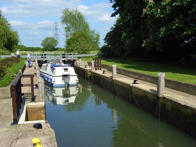 Grafton Lock, River Thames, Oxfordshire: a boat travelling downstream.